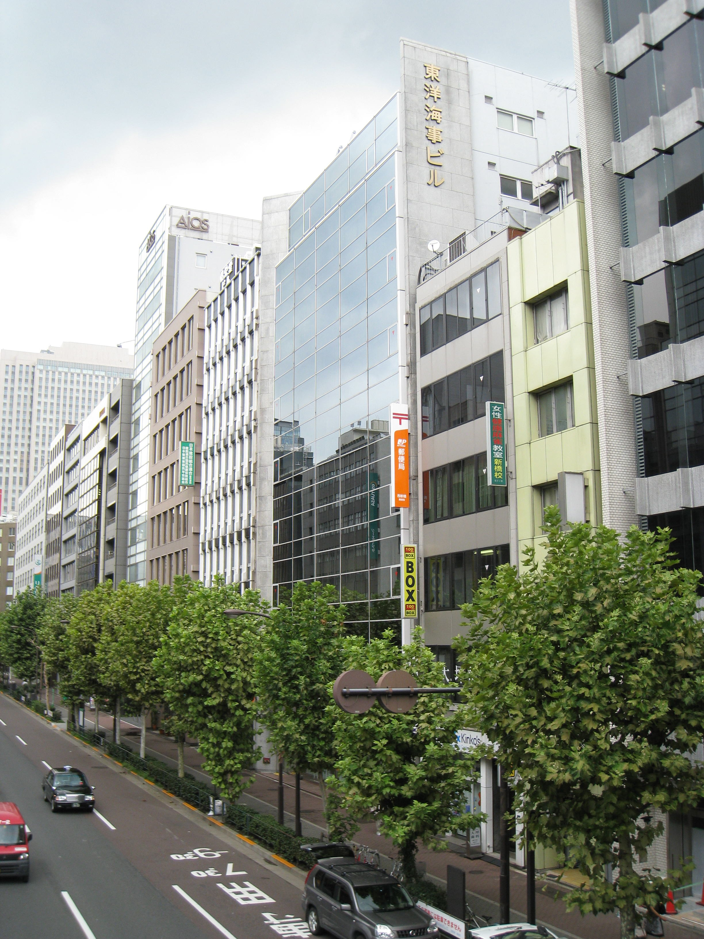 Nishishinbasi postoffice. Minato-ku, Tokyo, Japan